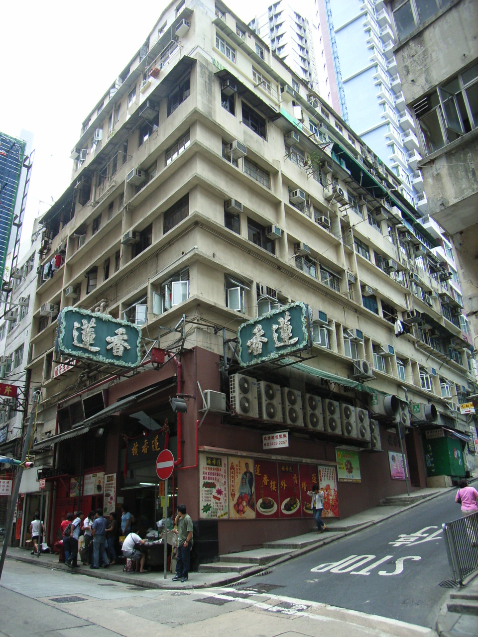 香港蓮香樓 by WAHKEE